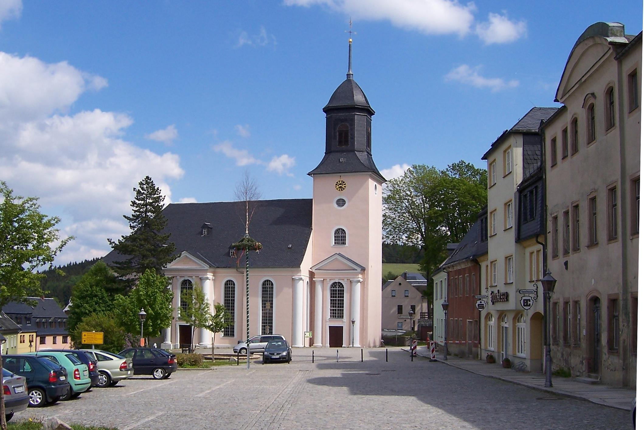 Grünhain: Church.